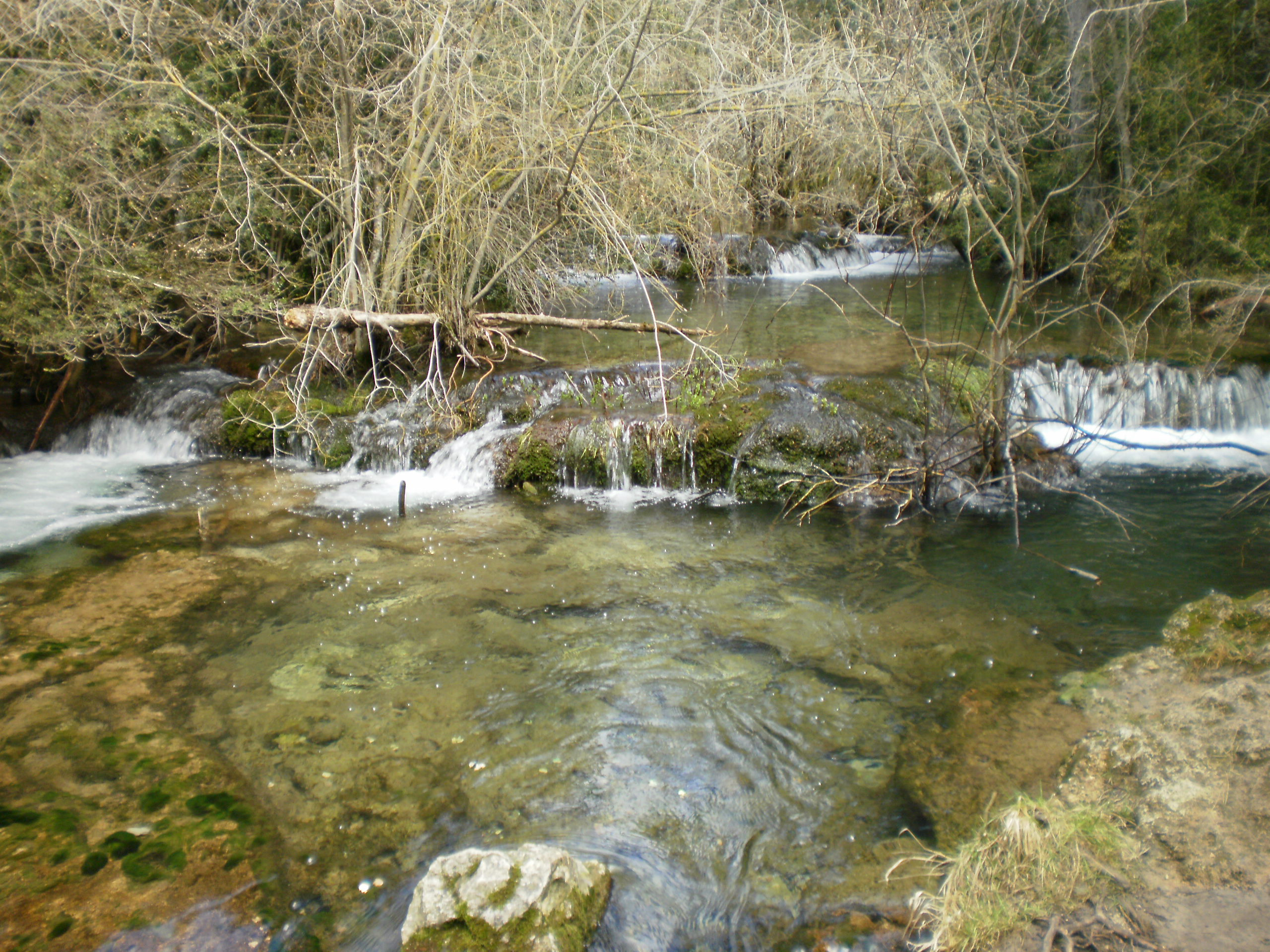 Natura 2000. Euskal Herria